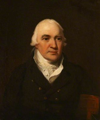 Portrait of Henry Paget, 1st Earl of Uxbridge (1744-1812), British peer, aged 67.